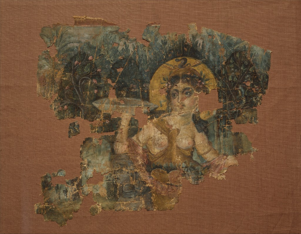 Date: 1st century; Location: From; Said to be from, Egypt; Akhmim (Khemmis, Panopolis), Northern Upper Egypt; Material: Linen, tempera paint; Measurements: h. 40.3 cm (15 7/8 in); w. 45.1 cm (17 3/4 in)